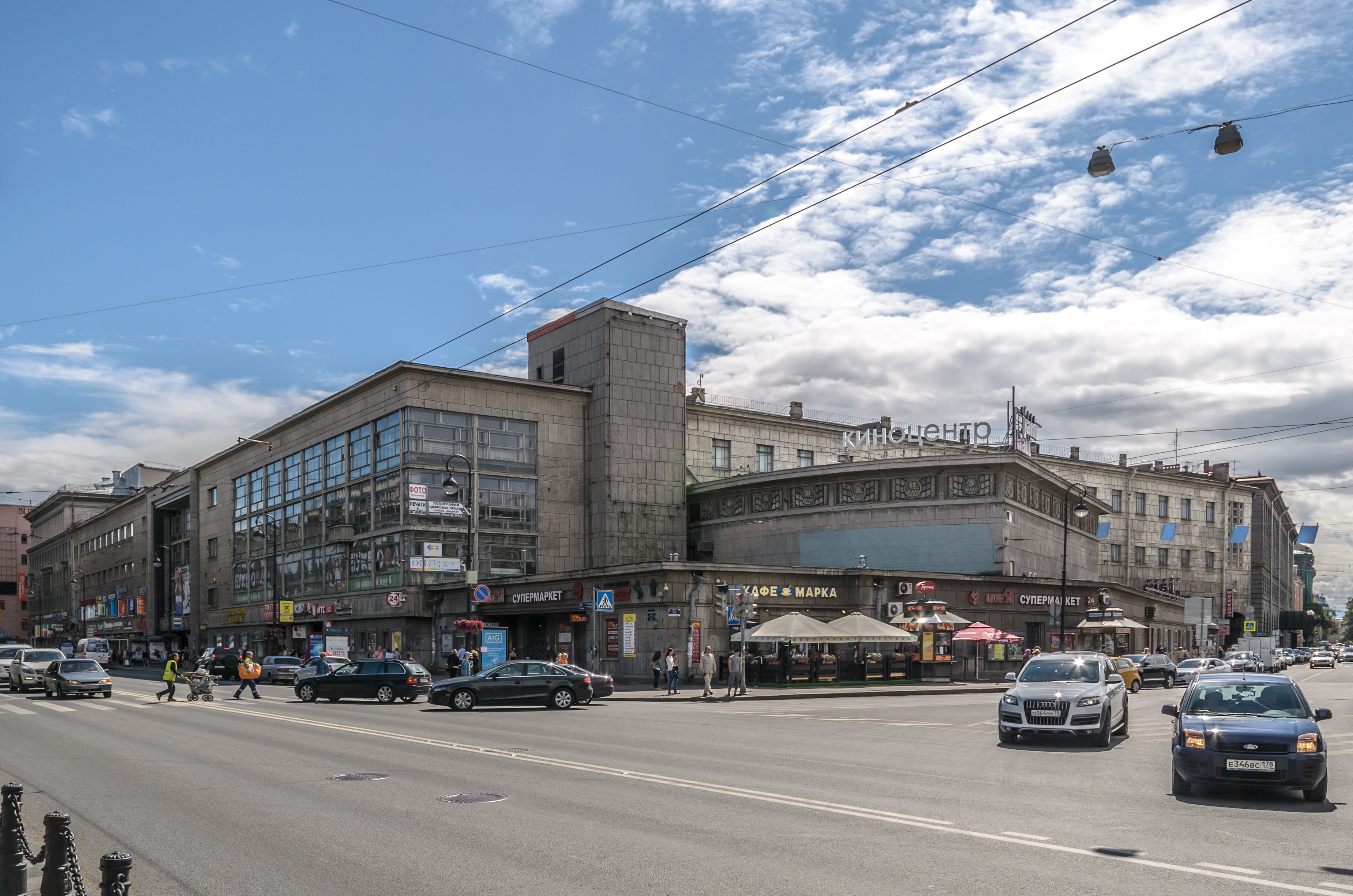 Lensoveta Palace of Culture in Saint Petersburg